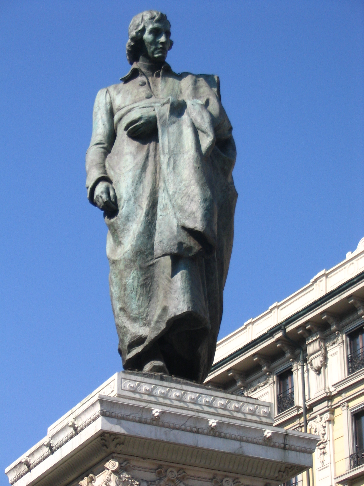 The monument to writer and poet Giuseppe Parini (1729-1799) in Piazzale Cordusio in Milan, Italy. It was modelled by Luca Beltrami (1854-1933).